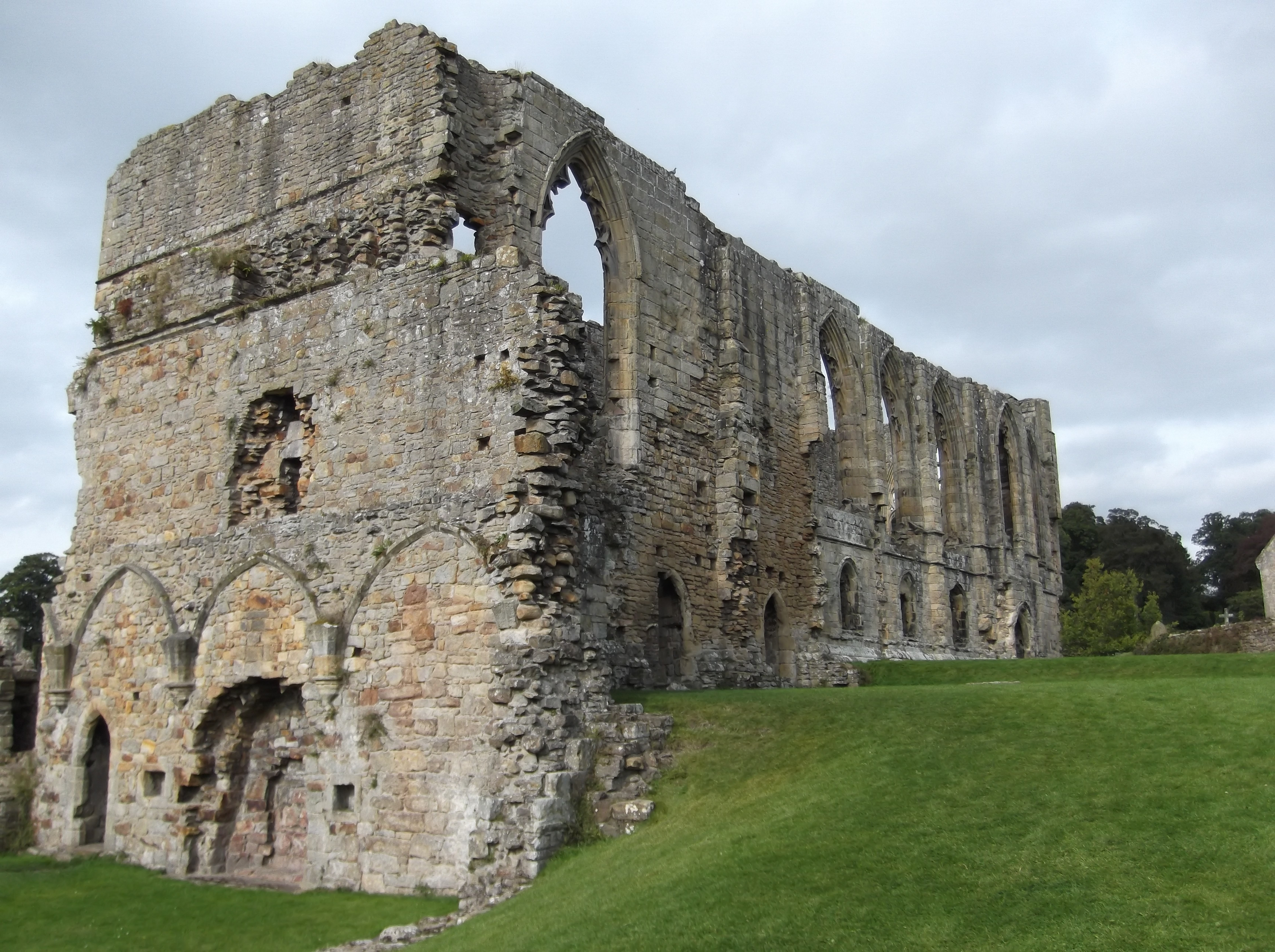 Photograph of the remains of the refectory of Easby Abbey, North Yorkshire, England